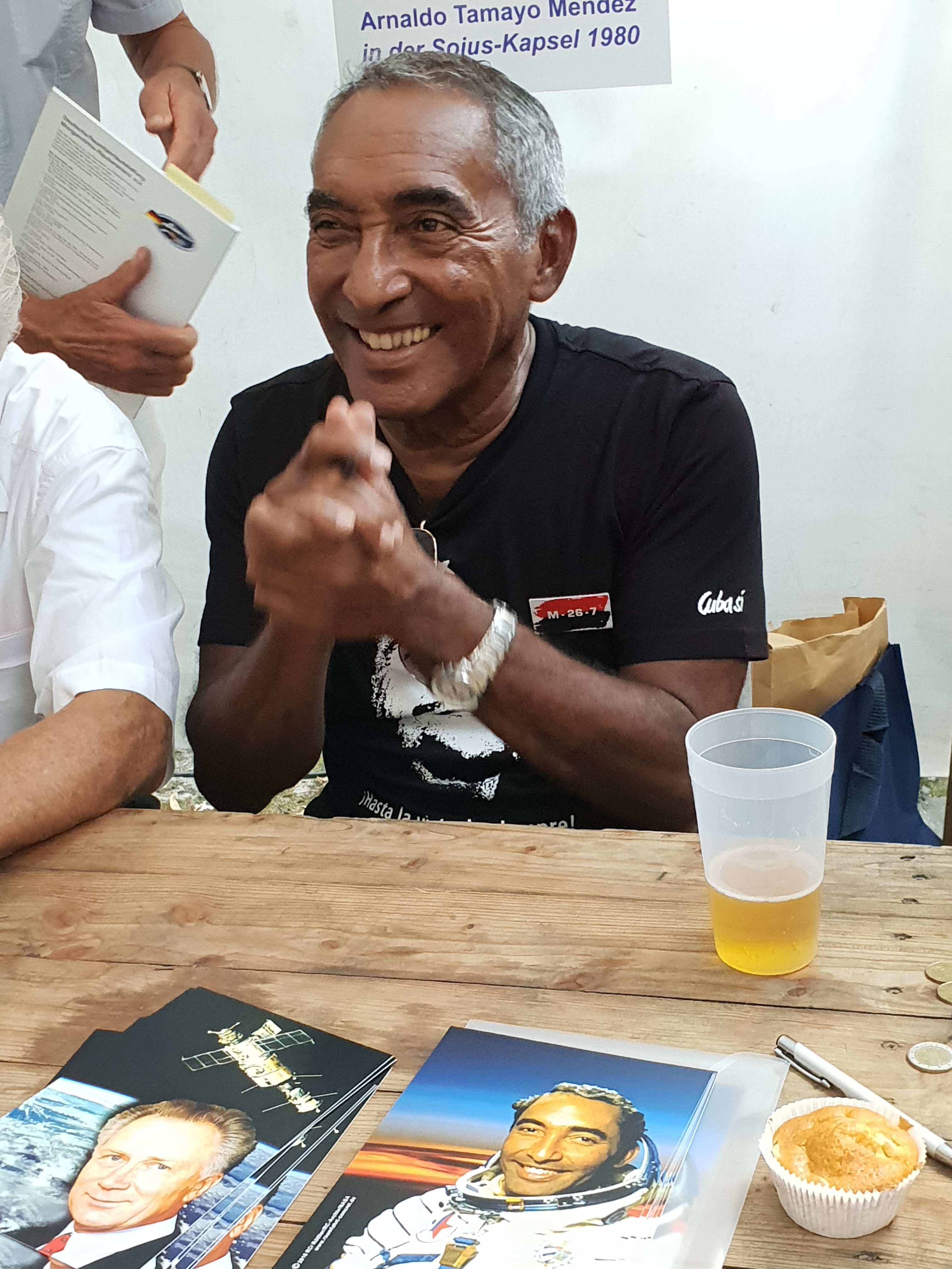 Arnaldo Tamayo at an autograph session with the east-german cosmonaut Sigmund Jähn, July 2018